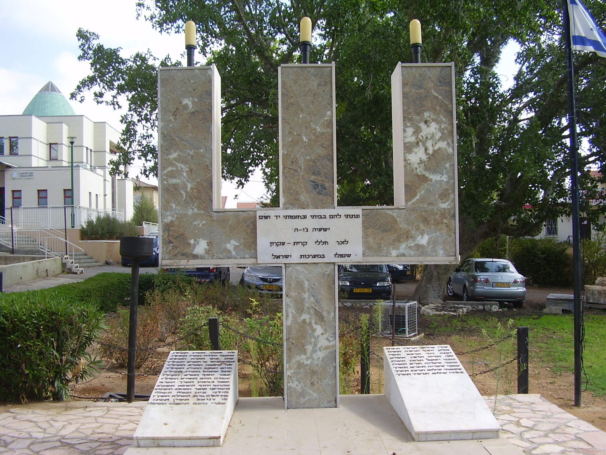 War memorial in Kiryat Ekron אנדרטה בקרית עקרון לנופלים במערכות ישראל